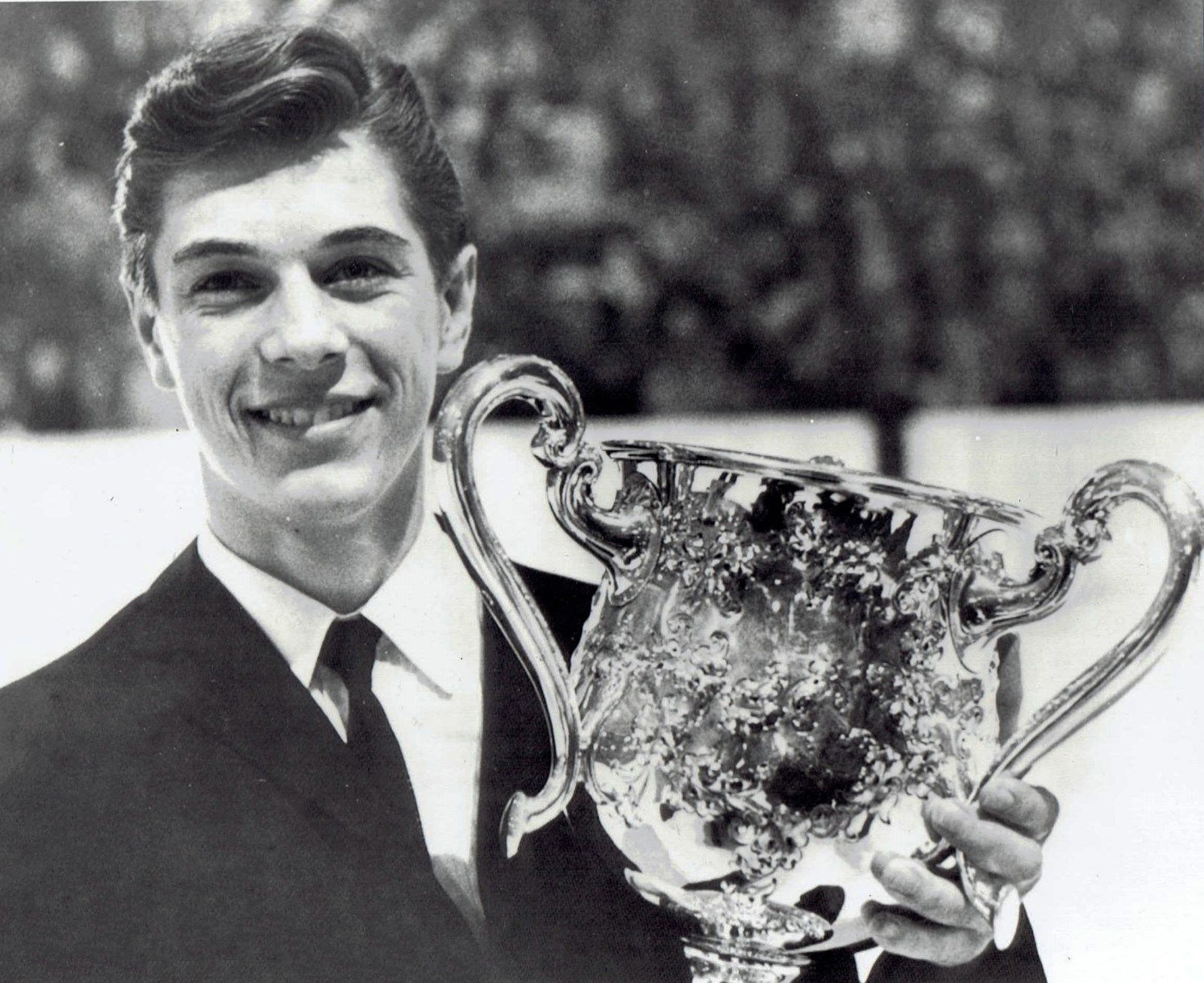 1962 Wire Photo holding US Men's Championship trophy figure skater Thomas Litz